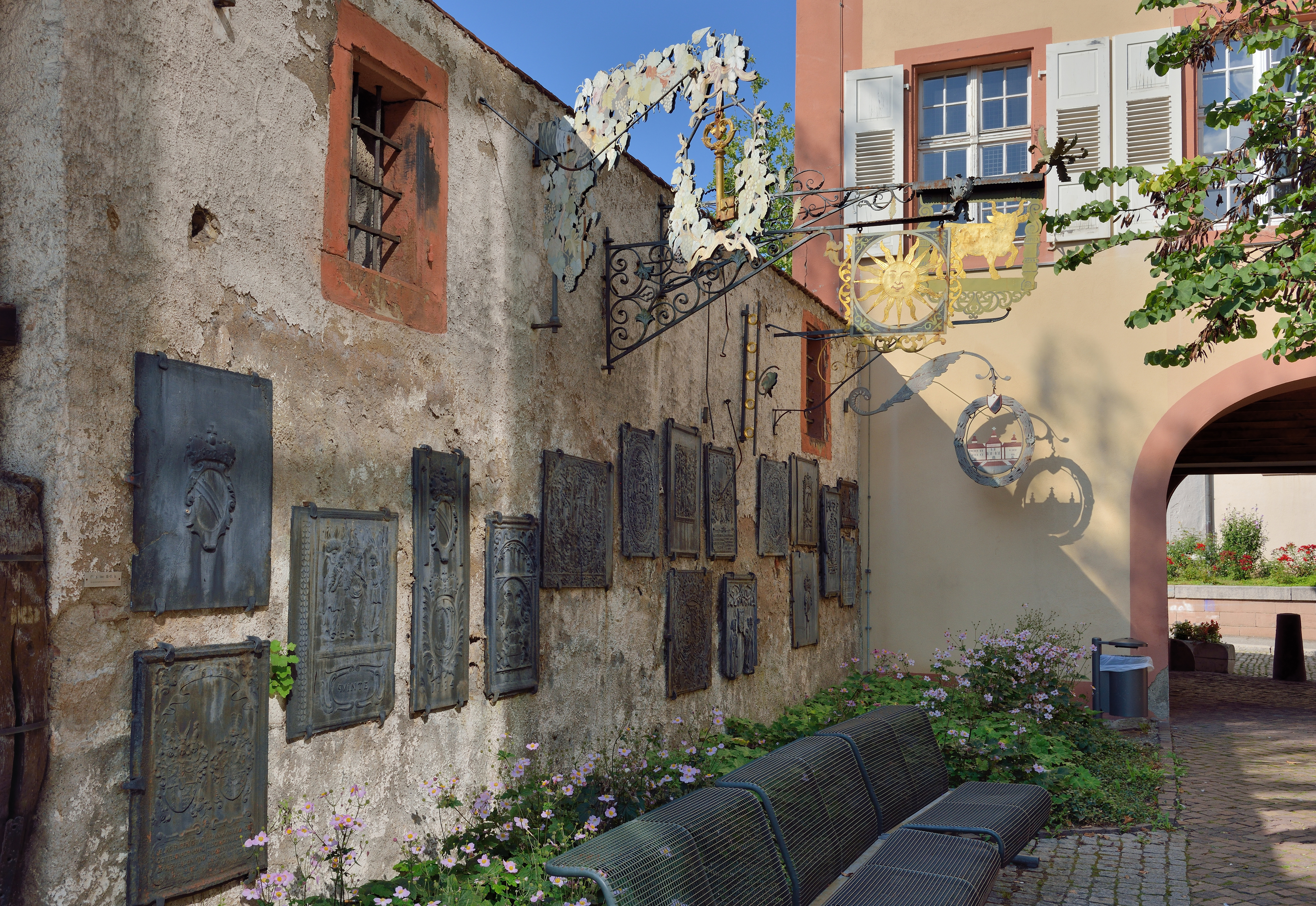 Lörrach: Museum of the three countries (Dreiländermuseum)